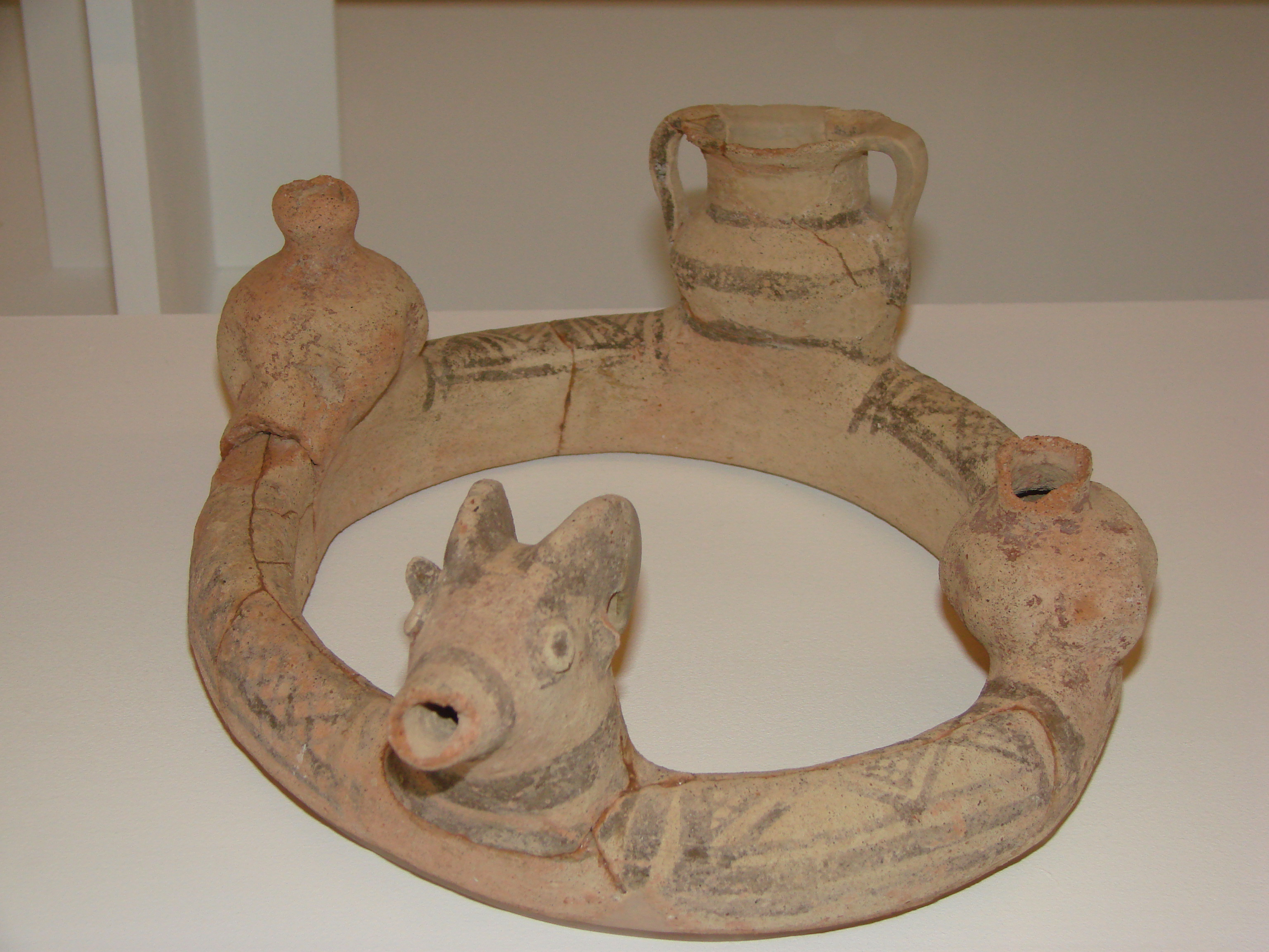 Kernos of Bichrome I-II from Amathus (11-10 century BC), Limassol Archaeological Museum.